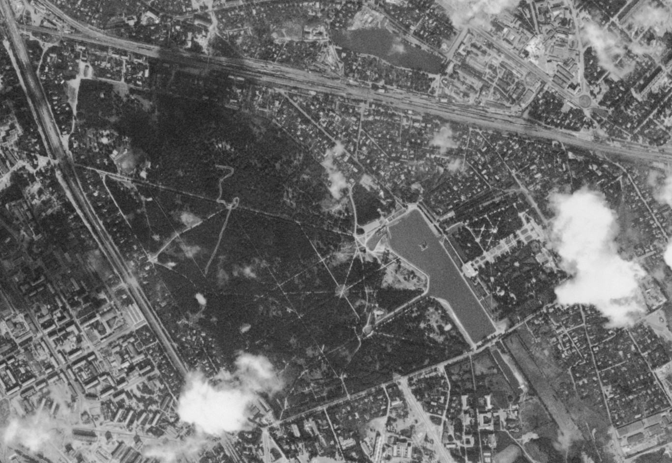 Kuskovo park. Part of Corona satellite imagery